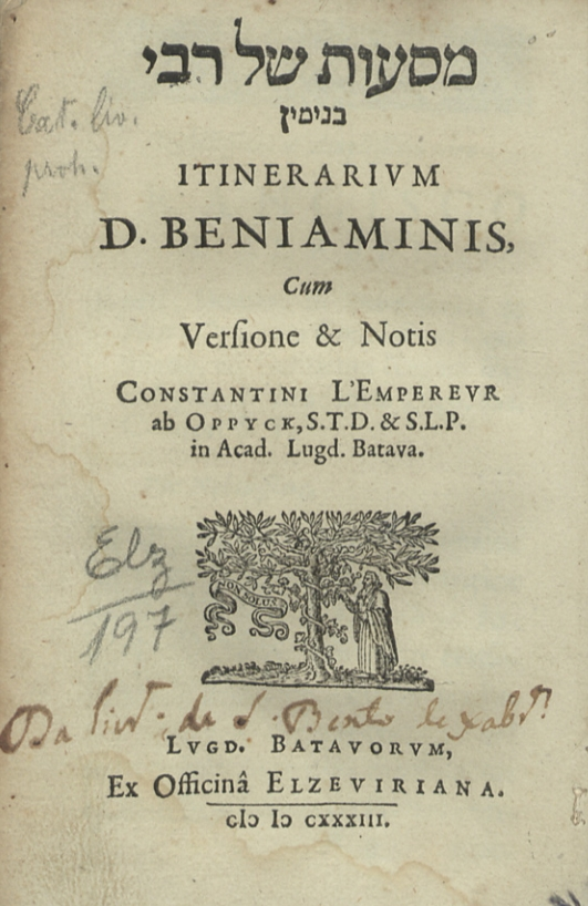 Benjamin of Tudela, Itinerarium 1633 ed. title page